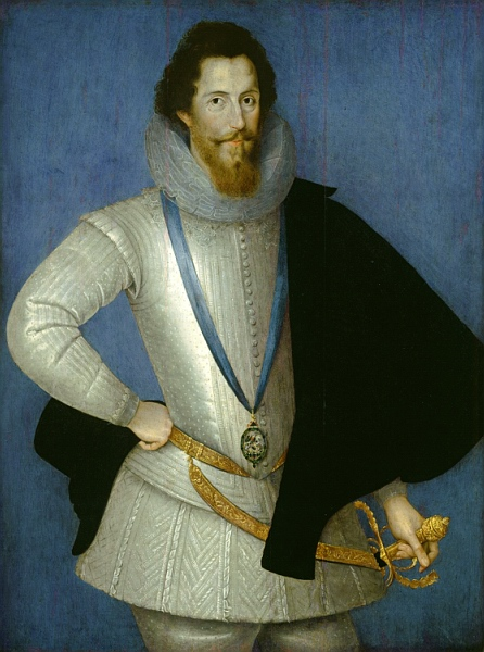 Robert Devereux, 2nd Earl of Essex